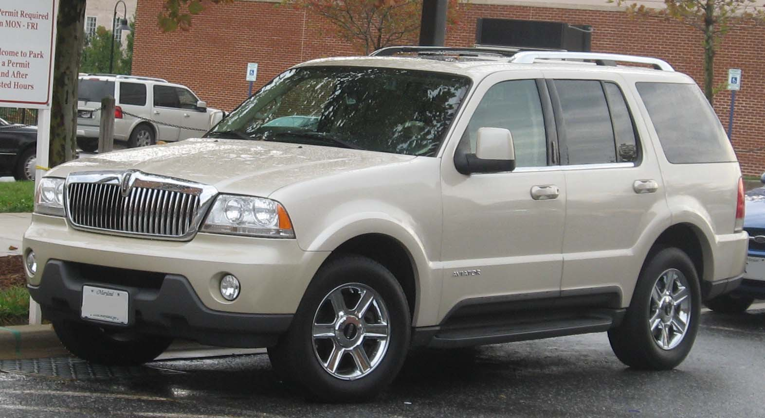 Lincoln Aviator photographed in College Park, Maryland, USA.